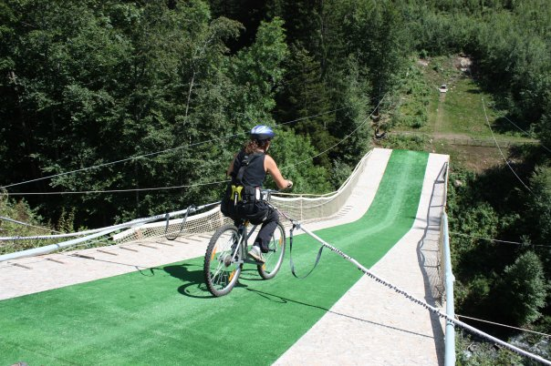 bungy jumping riding bike